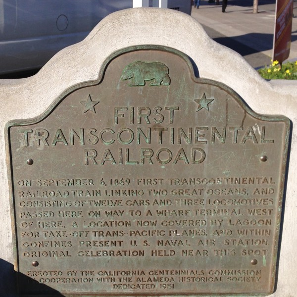 CHL #440 Alemeda Terminal